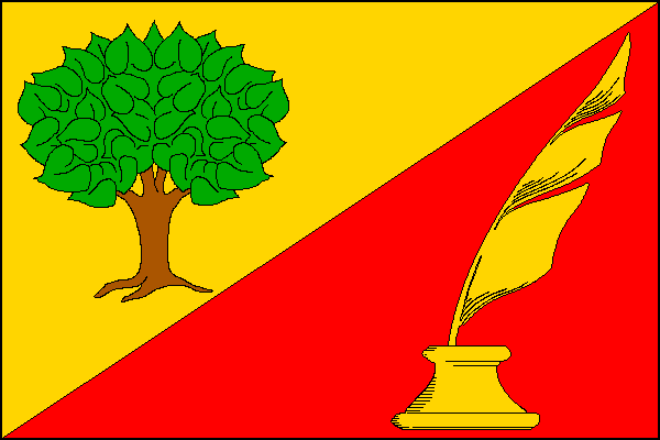 Municipal flag of Milčice , District Nymburk, Czech republic